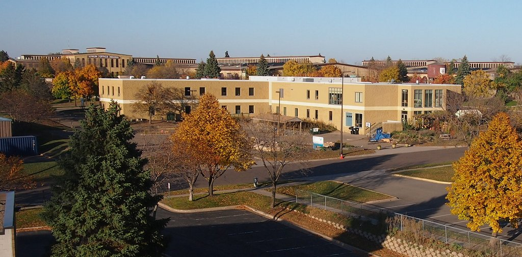 Energy Park development in St Paul, Minnesota, USA. Viewed looking northeast from the Hamline Ave pedestrian bridge.